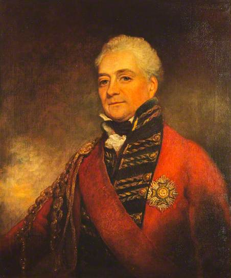 Major-General Sir David Ochterlony (1758–1825) National Galleries of Scotland, Scottish National Portrait Gallery; Supplied by The Public Catalogue Foundation